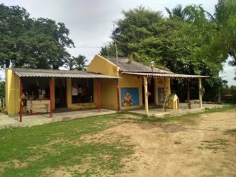 Temple campus where war trophy sculptures are kept in Chengamedu, Ariyalur district, Tamil Nadu, India